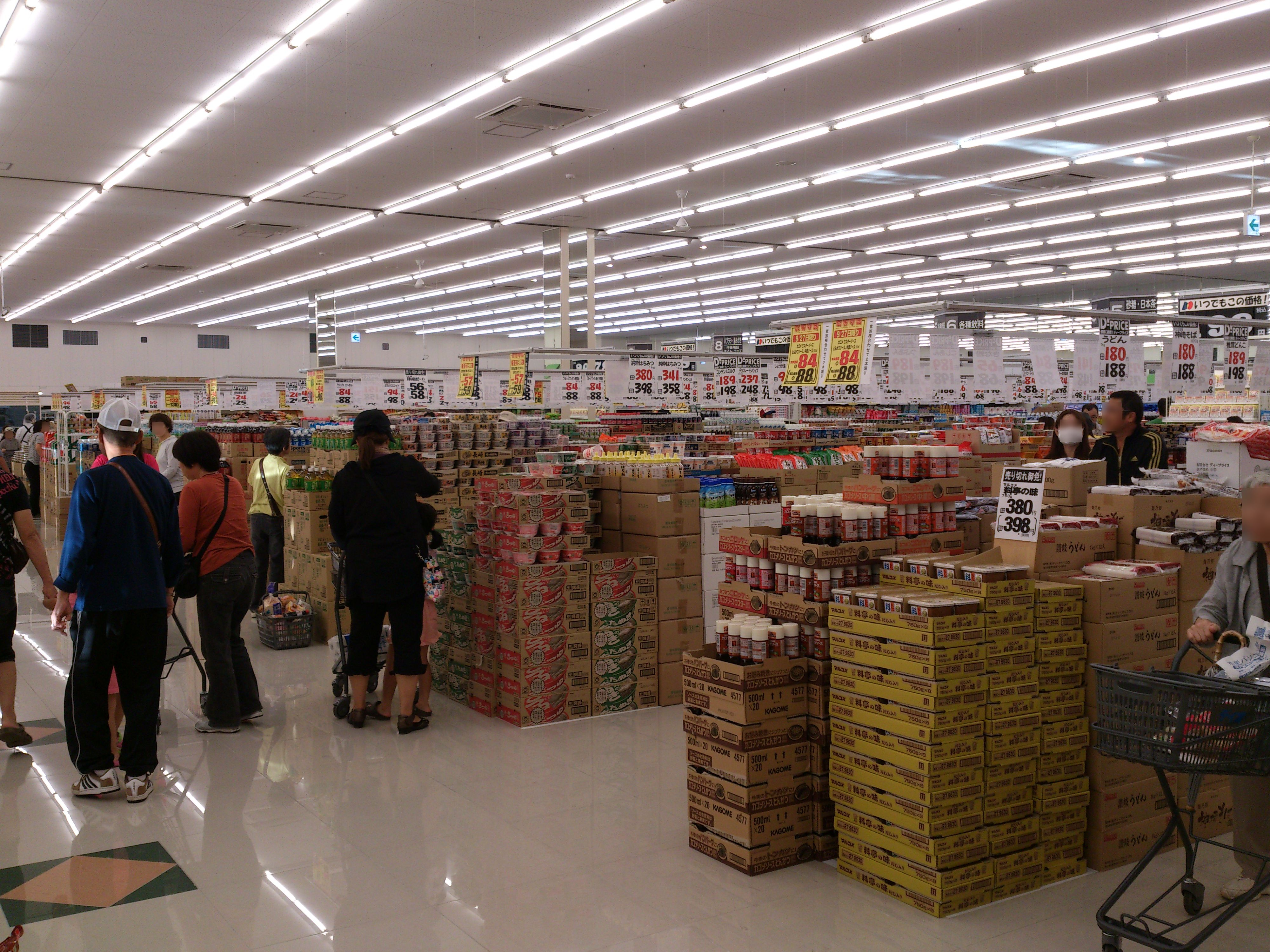 Dio Kawachinagano in Kawachinagano, Osaka